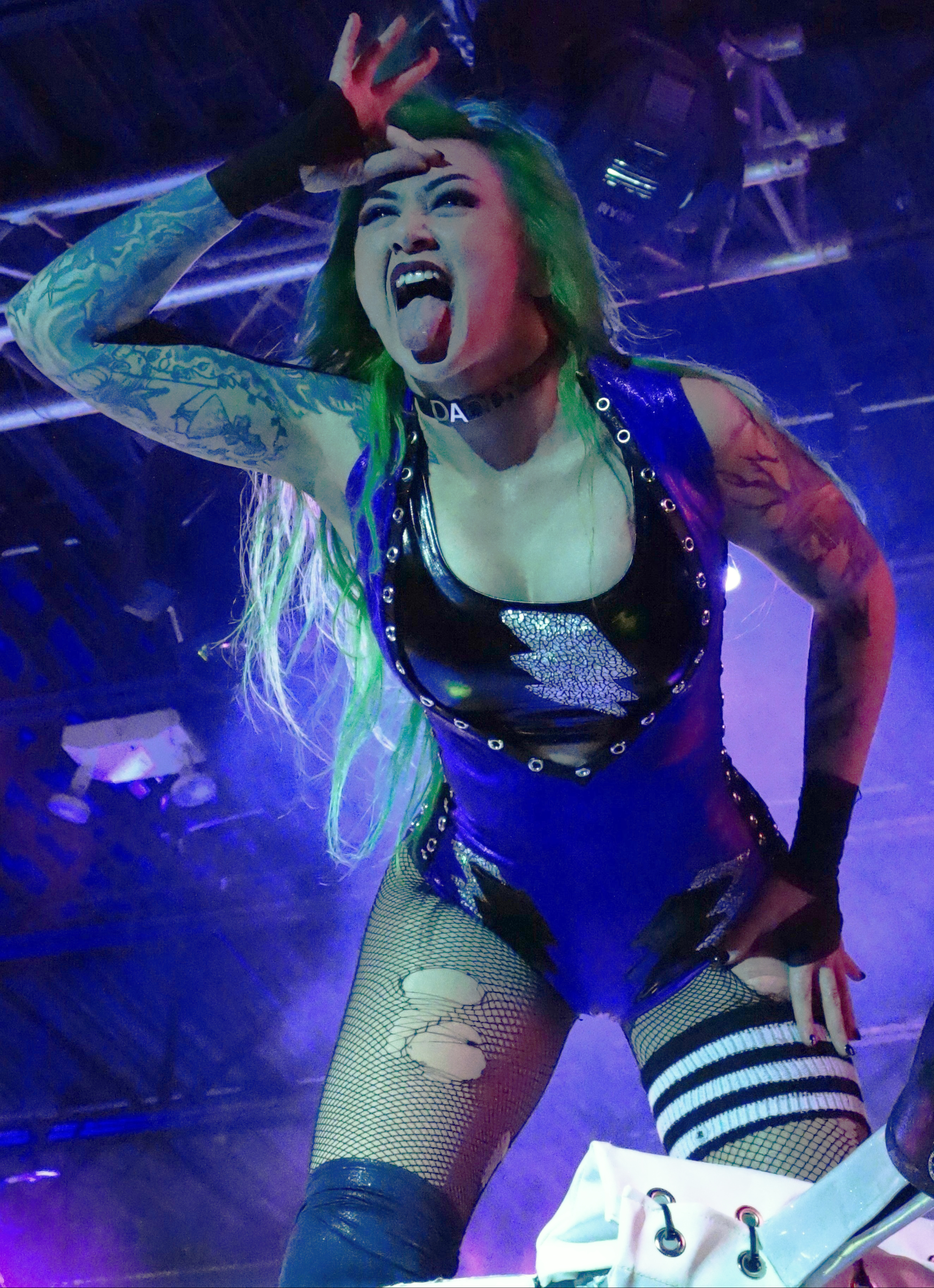 Shotzi Blackheart